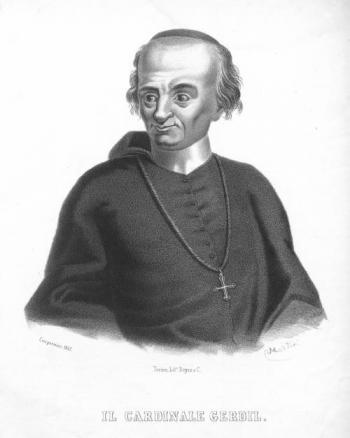 Hyacinthe Sigismond Gerdil